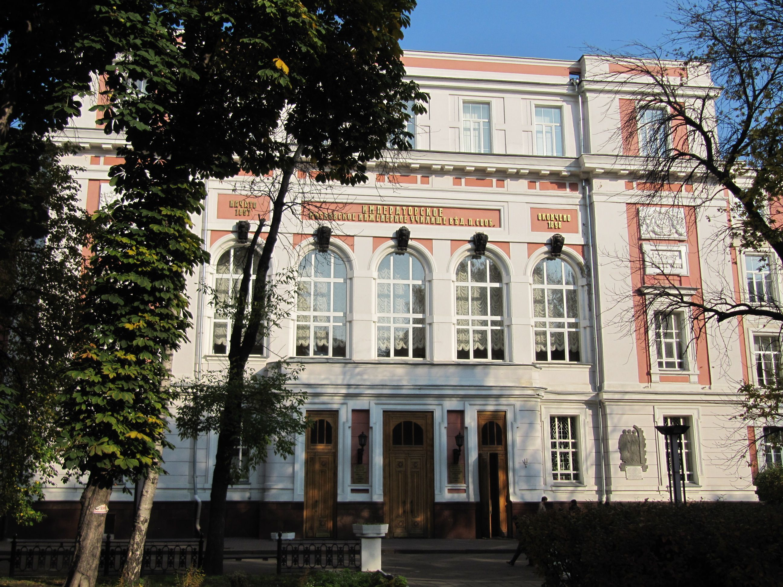 The entrance to the main building of the Moscow State University of Railway Engineering (MIIT)